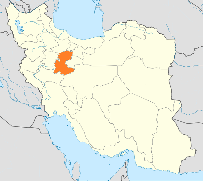 Locator map of Iran